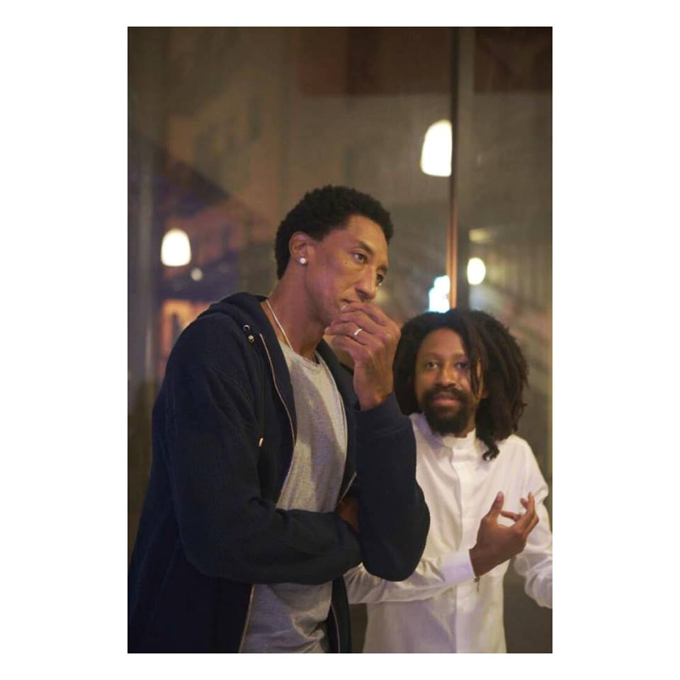 Genesis had an exhibition in LA April 2018 that had a mix of actors and actress, influencers, collectors, creatives, athletes, and artist all coming out to his show.